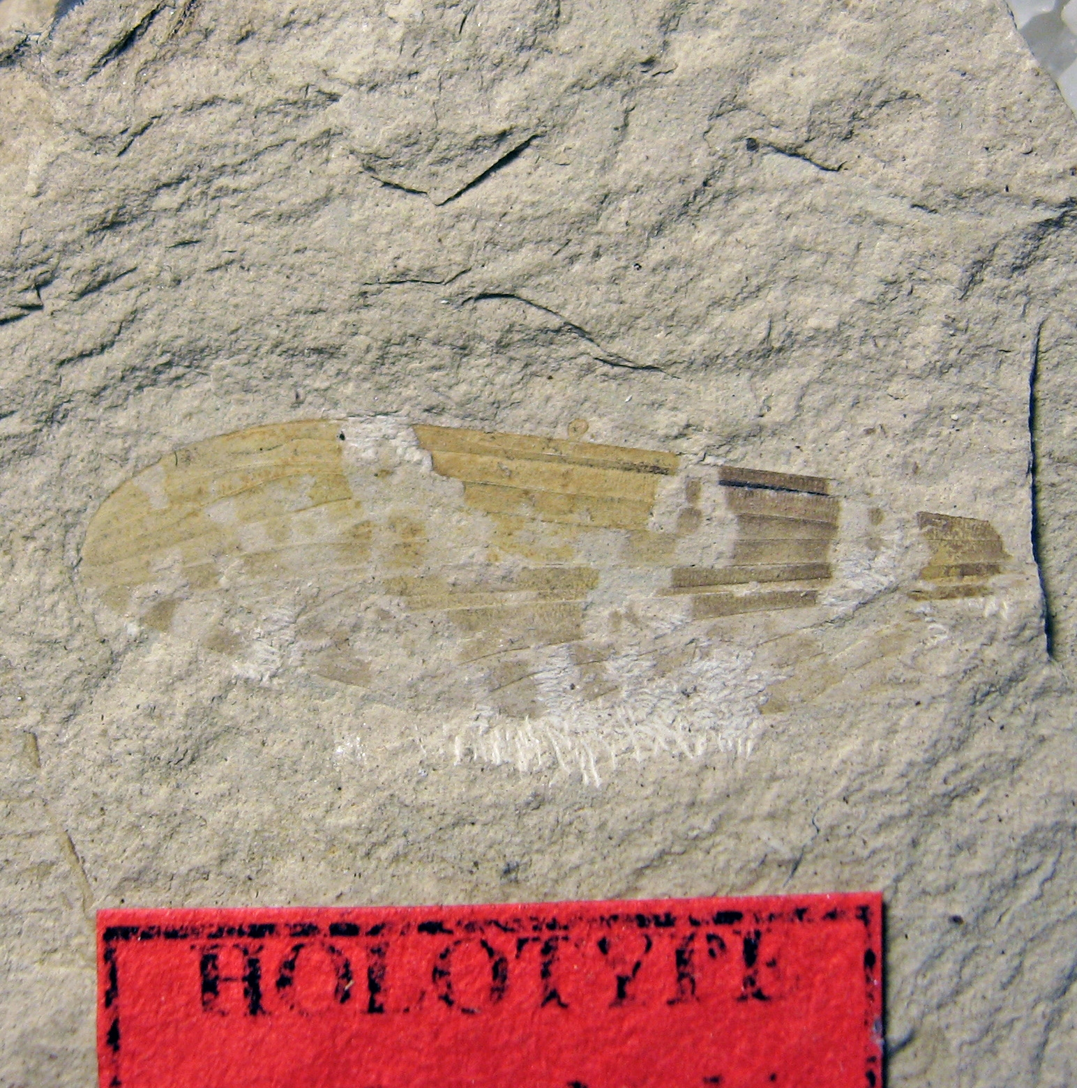 Holotype wing of the extinct Cimbrophlebia brooksi. Photographed after description. 49.5 Million Years old; "Boot Hill", Klondike Mountain Formation, Republic, Washington, USA. Stonerose Interpretive Center Collection # SR 06-20-05 A.